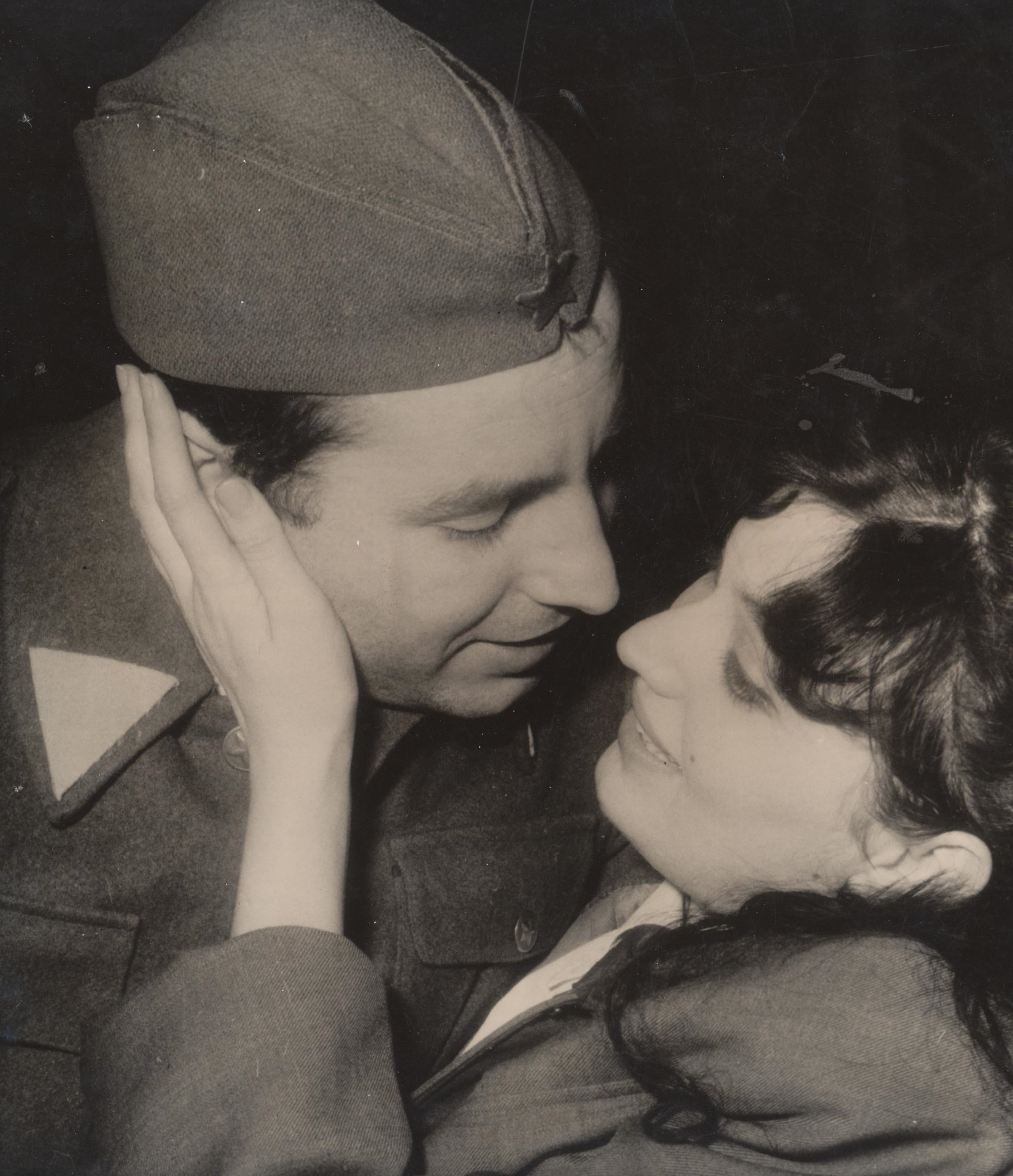 The performance Eighth offensive in the Pirot theater 1971